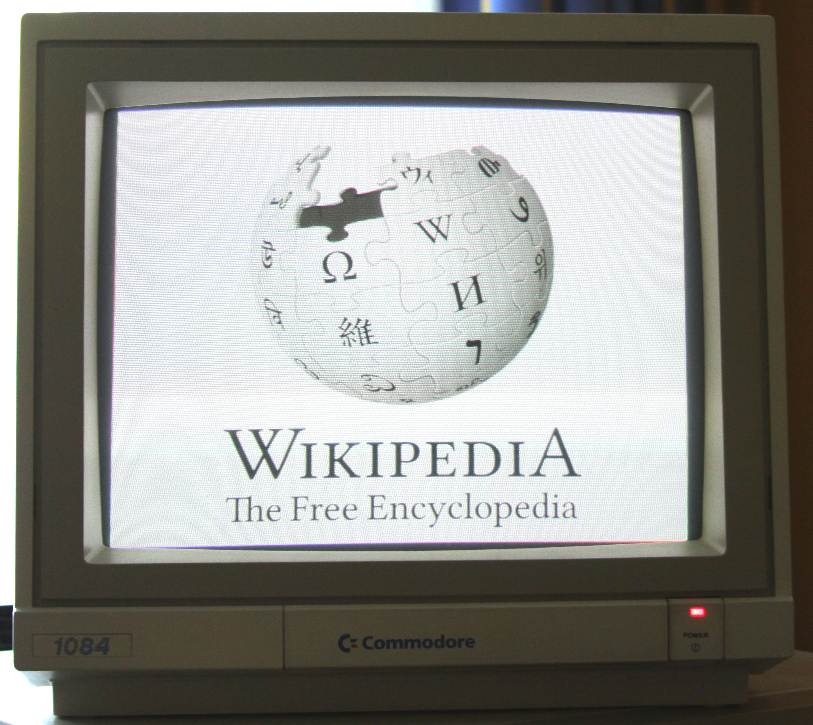 A Commodore Amiga 2000 displaying the Wikipedia logo in PAL Hires Interlace mode (640x512, 16 colors) on a 14" Commodore 1084 CRT monitor. The image file for the Amiga was created using GIMP (rescaling, color reduction/dithering) and GrafX2 (conversion to IFF-ILBM format), transferred to the machine via serial port and YMODEM with the Handshake 2.20 AmigaOS terminal emulator, and displayed using Deluxe Paint IV on the Amiga.